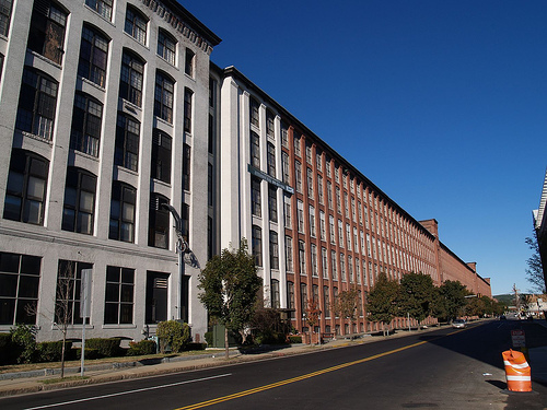 The enormous Wood Mill, Lawrence, Massachusetts